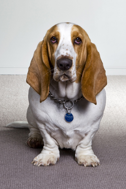 I took this photo of my Basset Hound puppy Trilby at the age of 13 months.